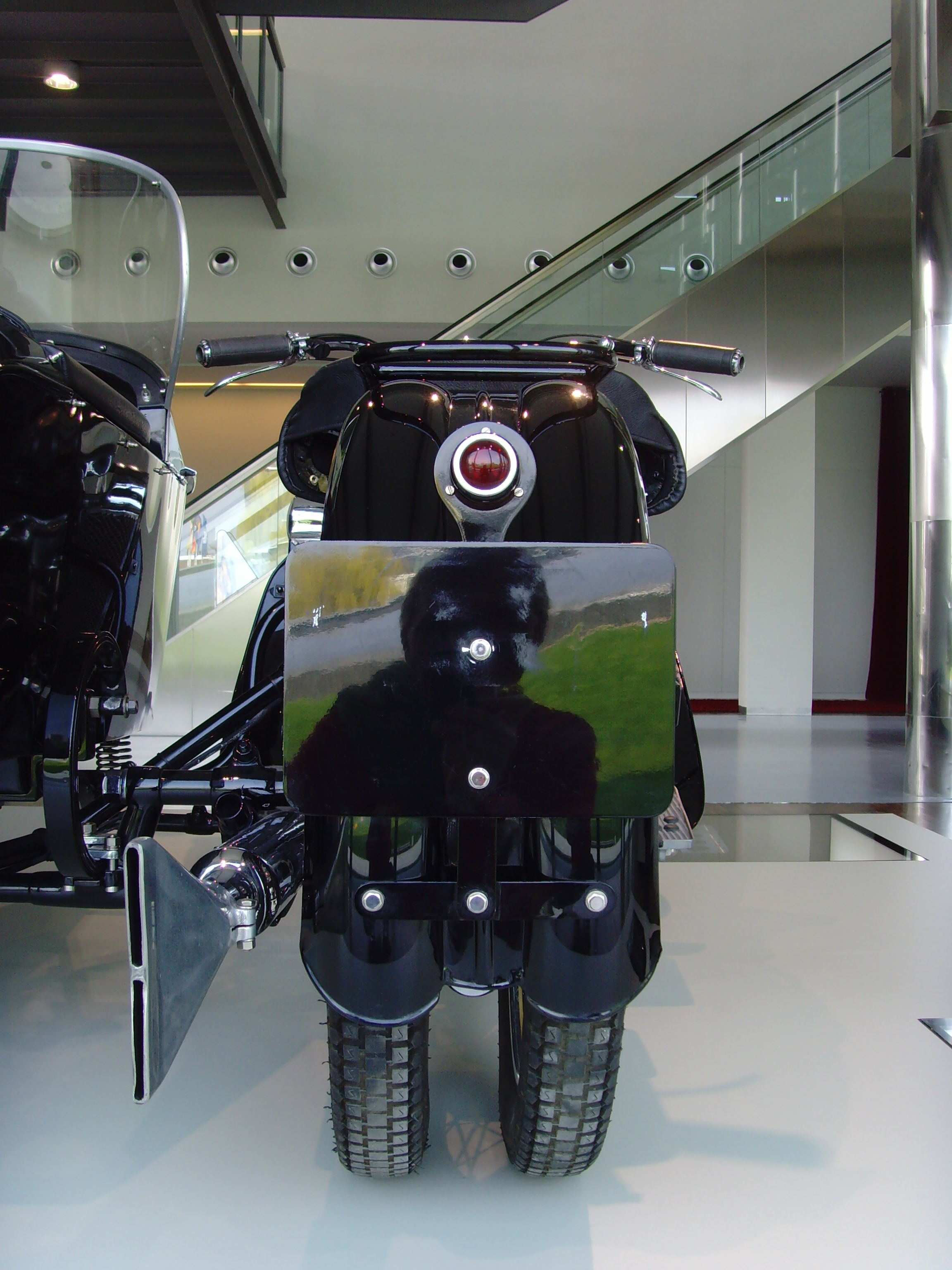 Autostadt Wolfsburg - motorrad ikonen - Brough Superior Four 1932 1